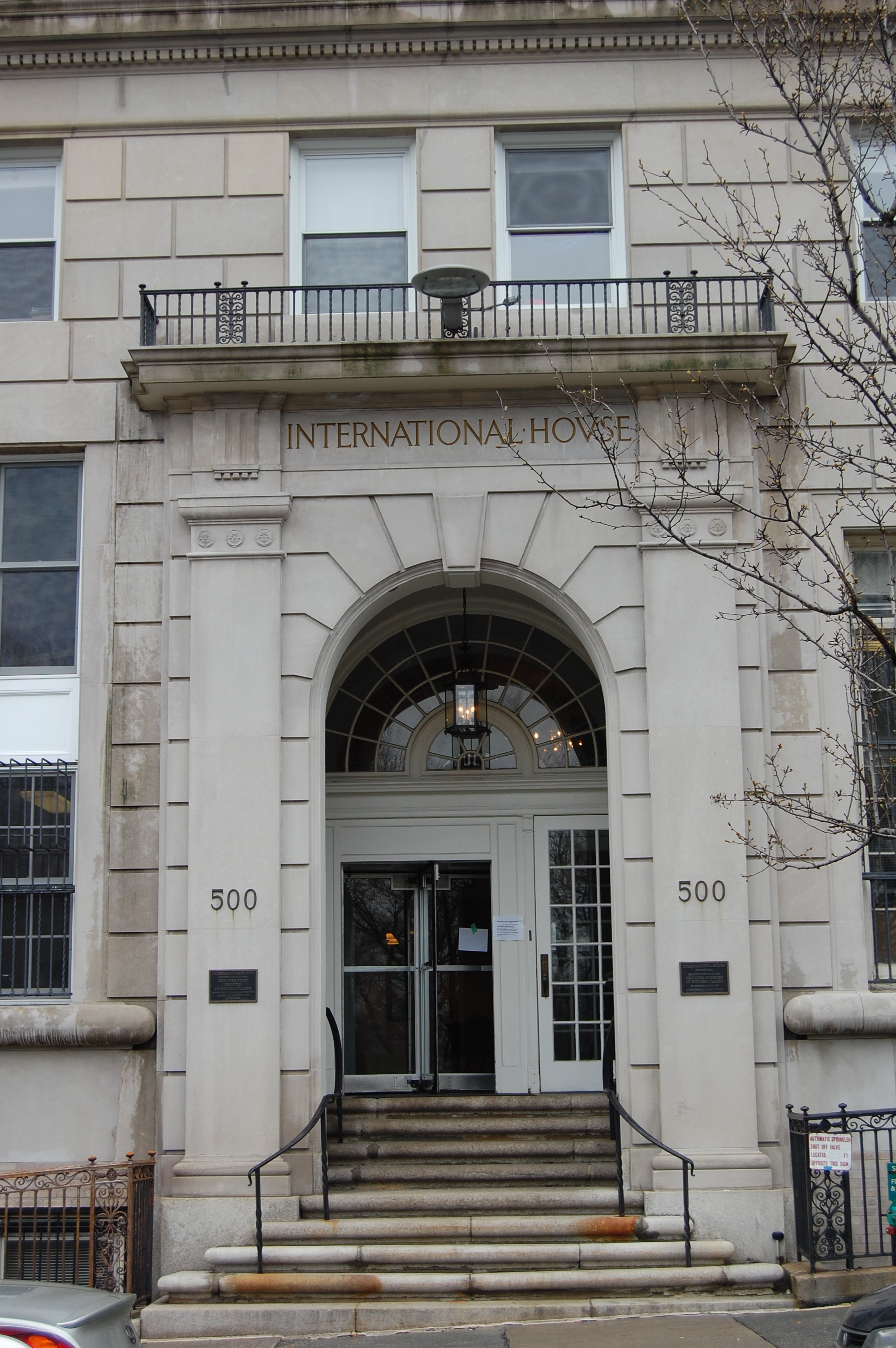 This photo is of Wikipedia Takes Manhattan location code 7, International House of New York.